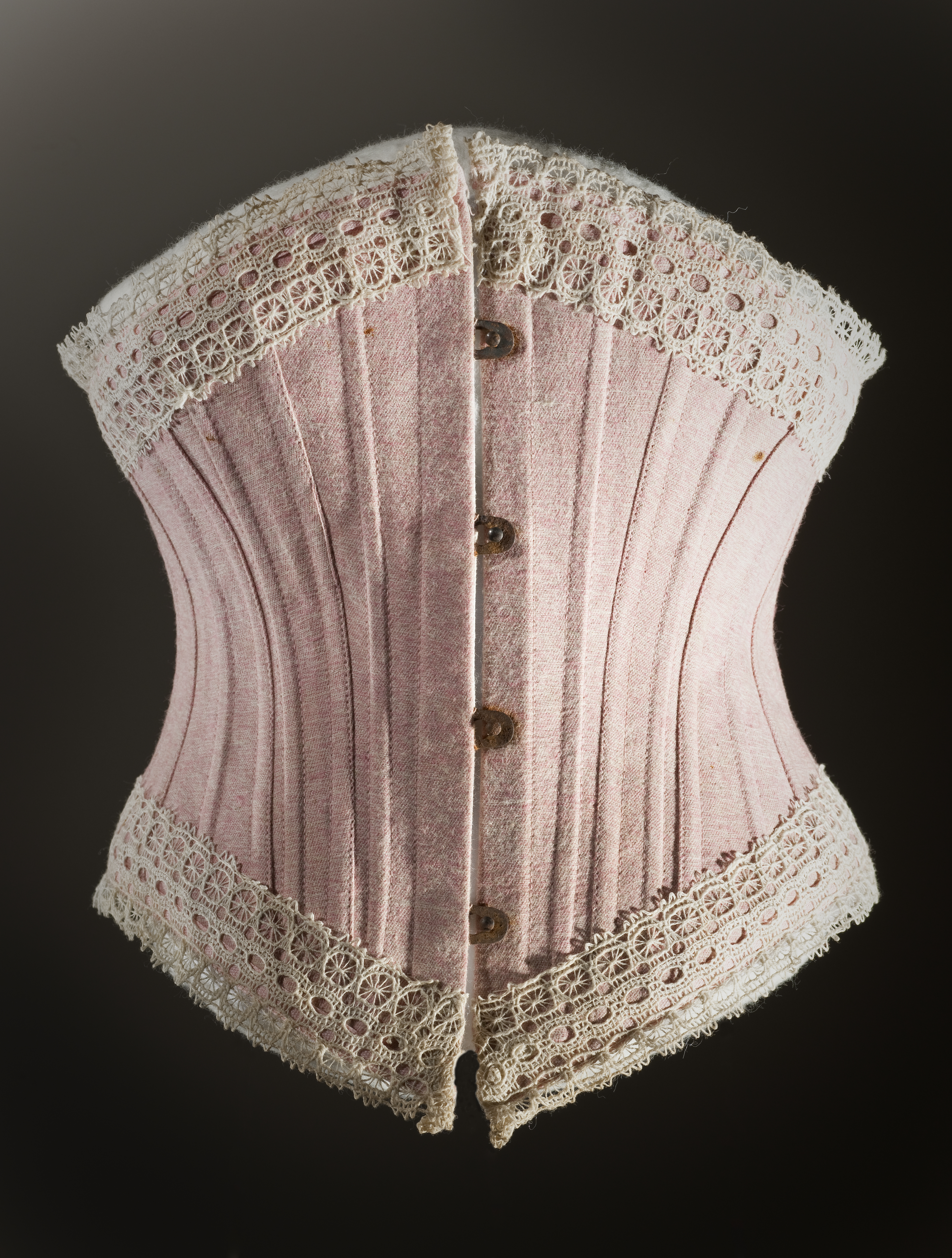 Corset, England, 1890-1895 in pink cotton.